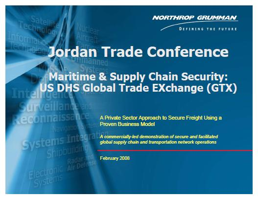 U.S. Government funded project work is accorded Federal copyright.